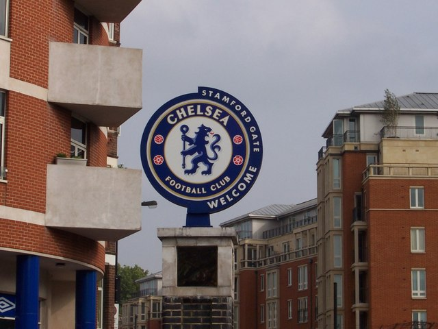 Chelsea Football Club Stamford Bridge Fulham Road SW6